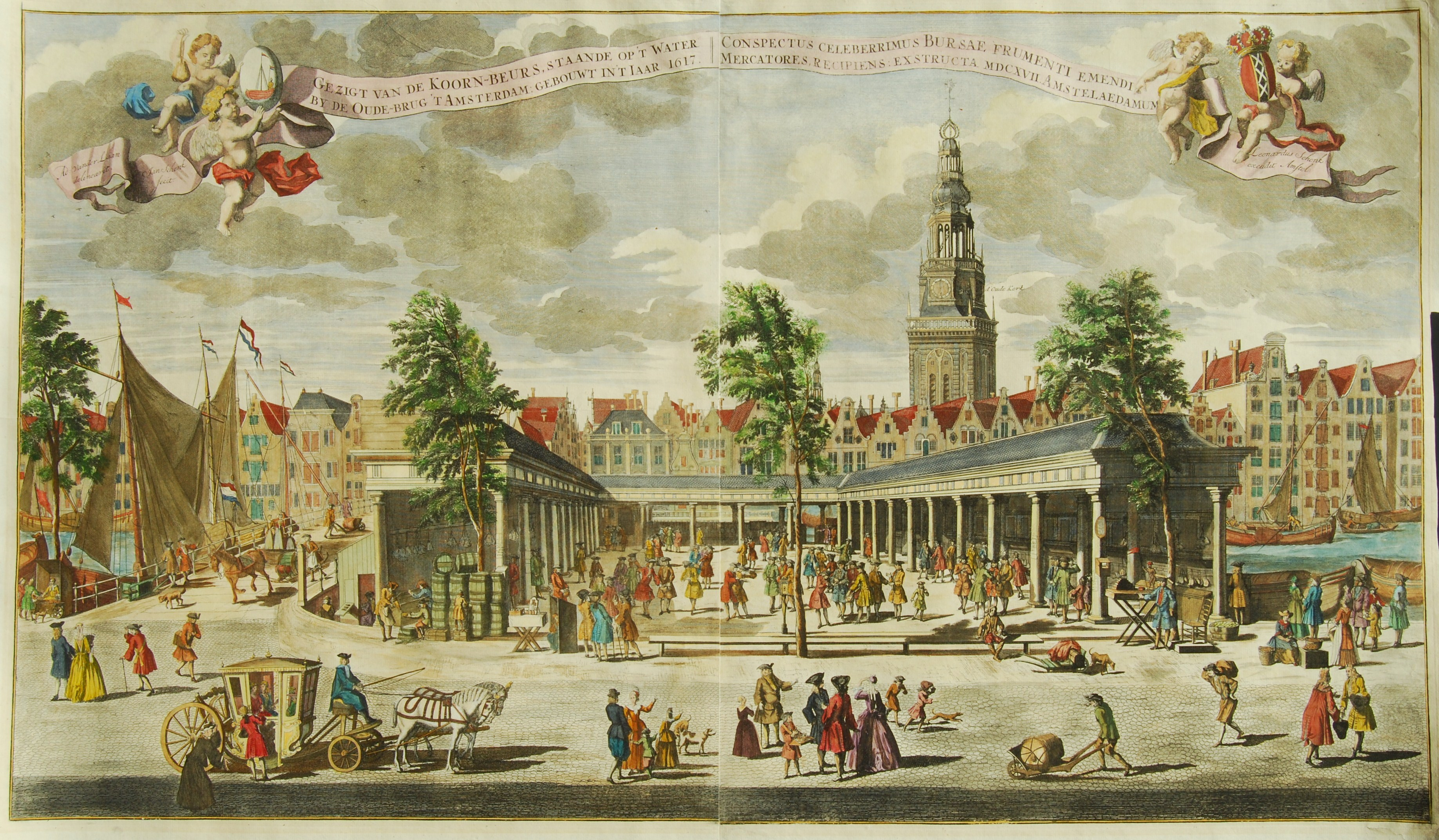 View of the Korenbeurs in Amsterdam. Engraving printed on two copper plates manufactured between 1751 and 1766. Engraved by Jan Schenk after a drawing by Adolph van der Laan, edited by Leon Schenk.